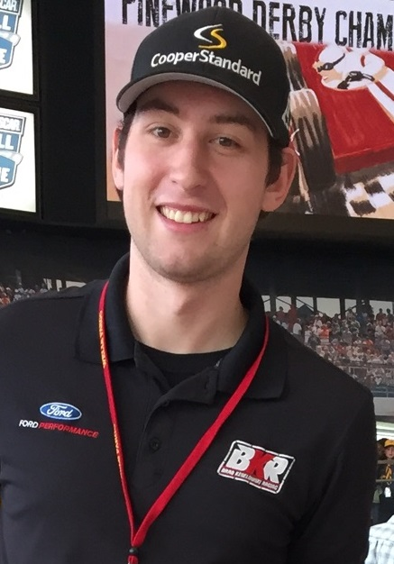 Picture of Chase Briscoe